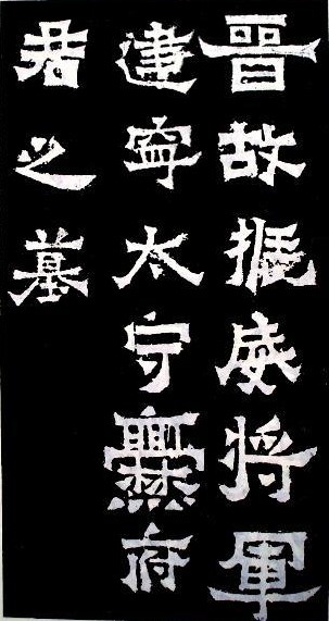 晋故振威将军建宁太守爨府君墓碑